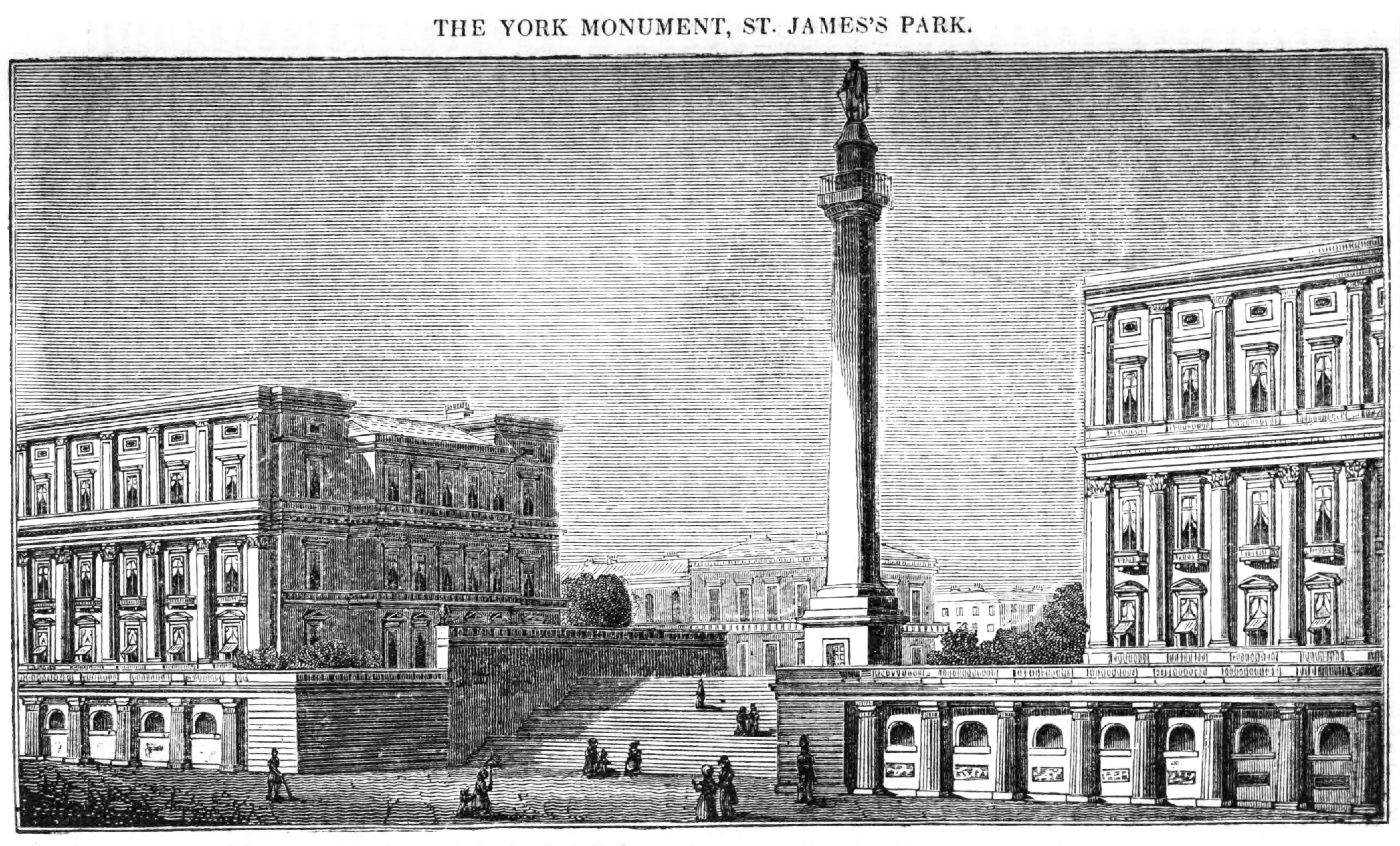 Illustration of the Duke of York Column shortly after completion.